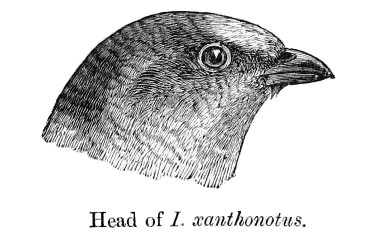 Indicator xanthonotus